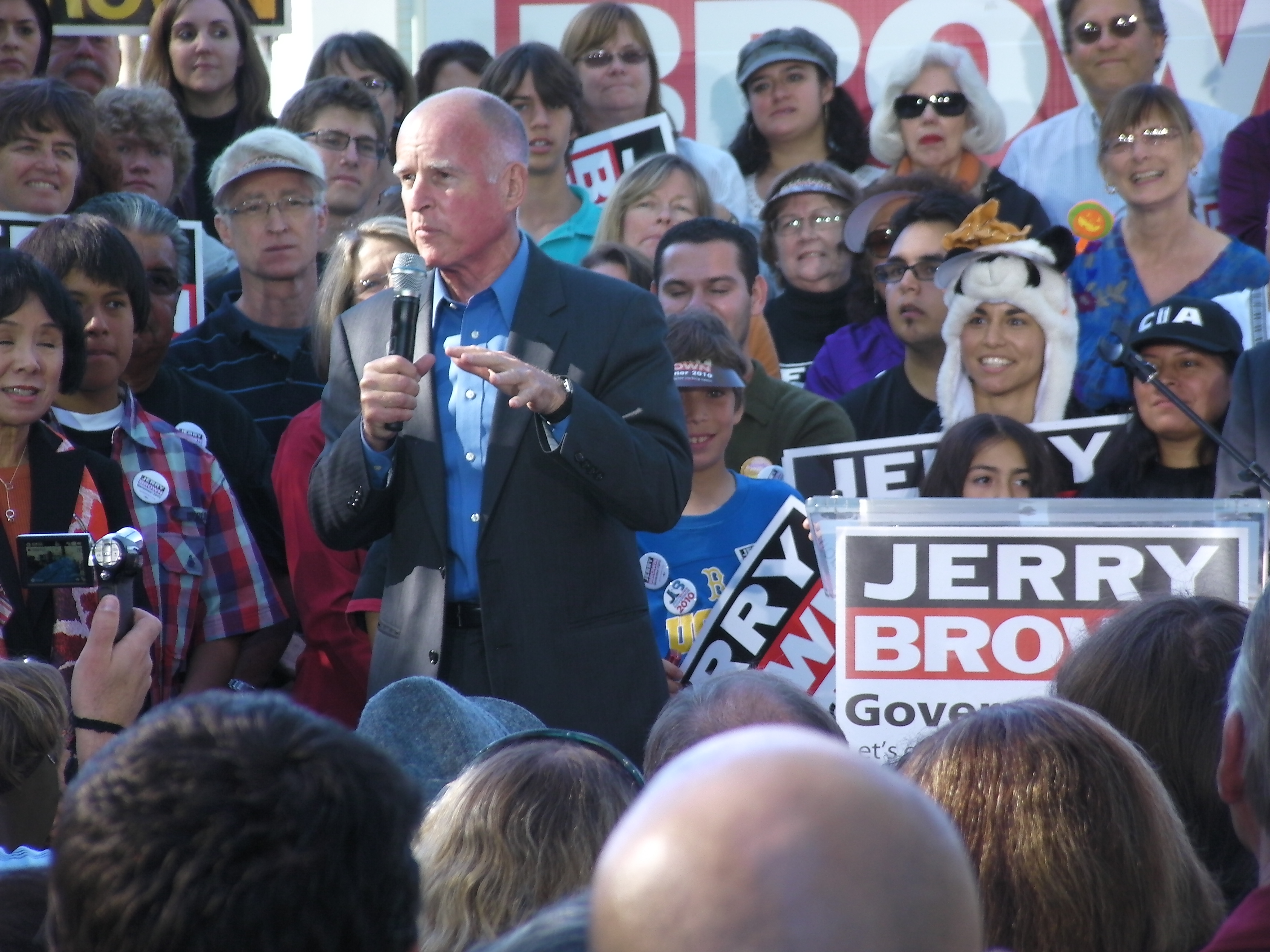 Governor Jerry Brown at an Oct 31 Rally in Sacramento California.